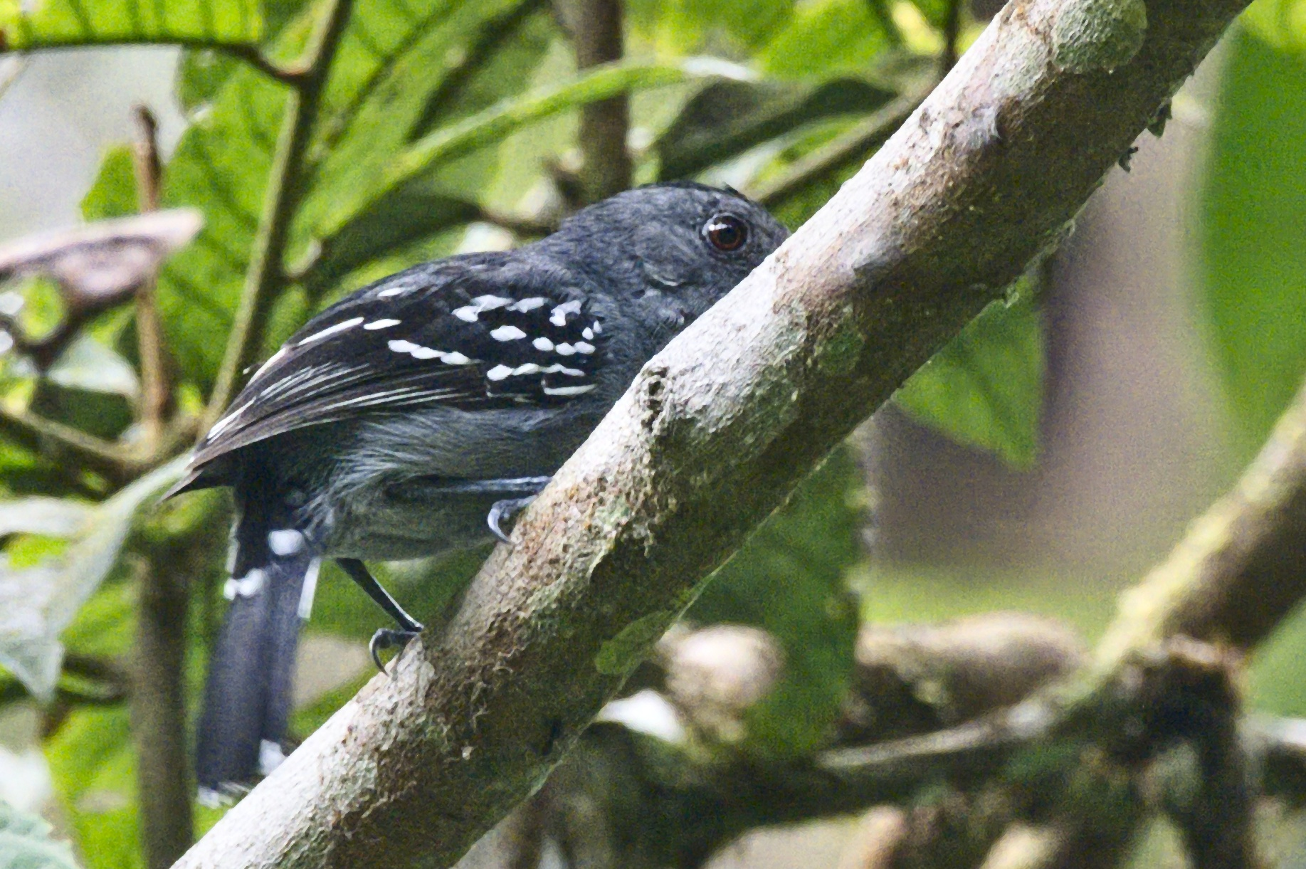 Northern Slaty-Antshrike at Bosque Bavaria, Villavicencio, Colombia